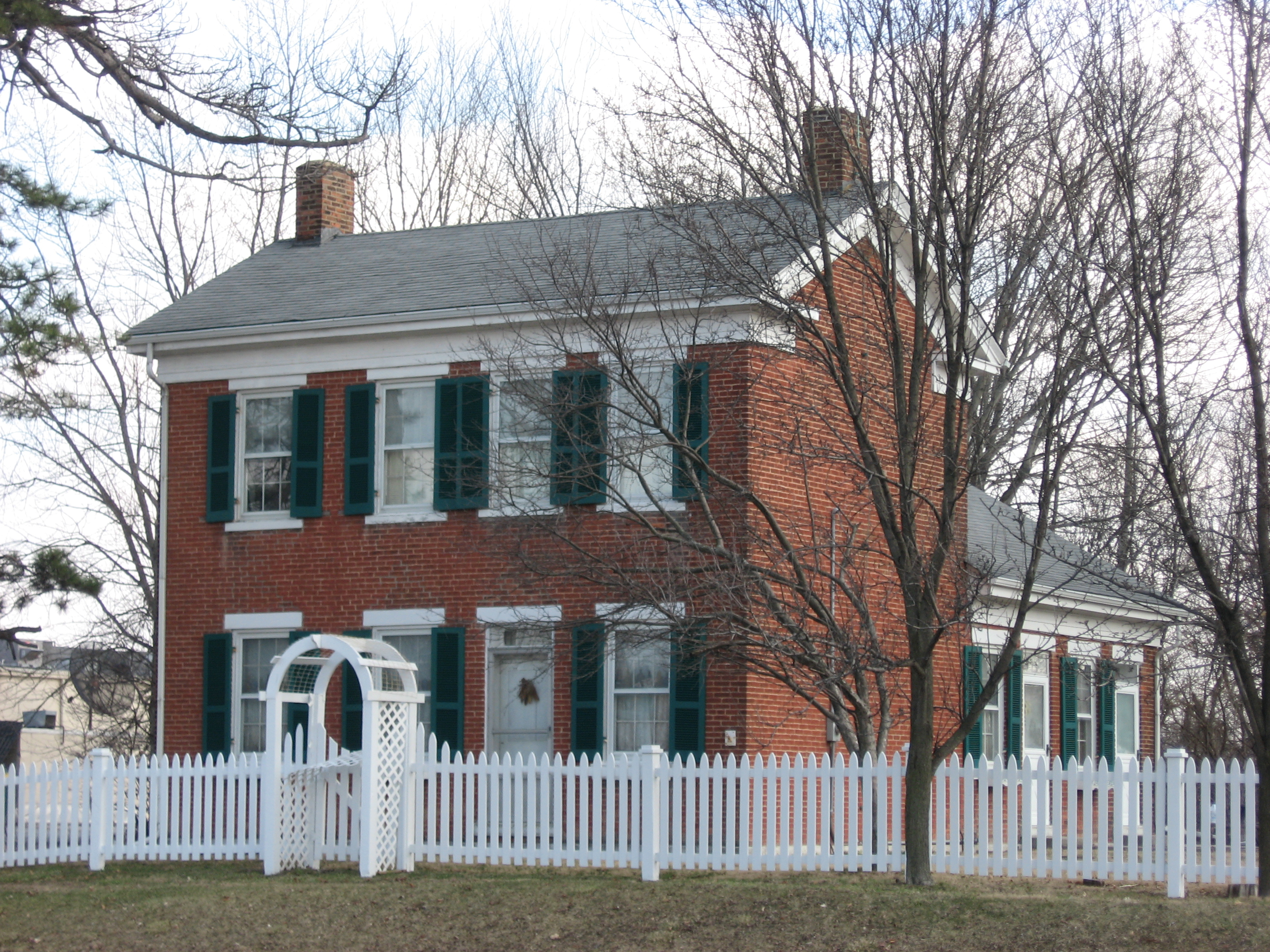 Western front of the Christopher Apple House, located at 11663 Pendleton Pike (U.S. Route 36) in Indianapolis, Indiana, United States. Built in 1859, it is listed on the National Register of Historic Places.